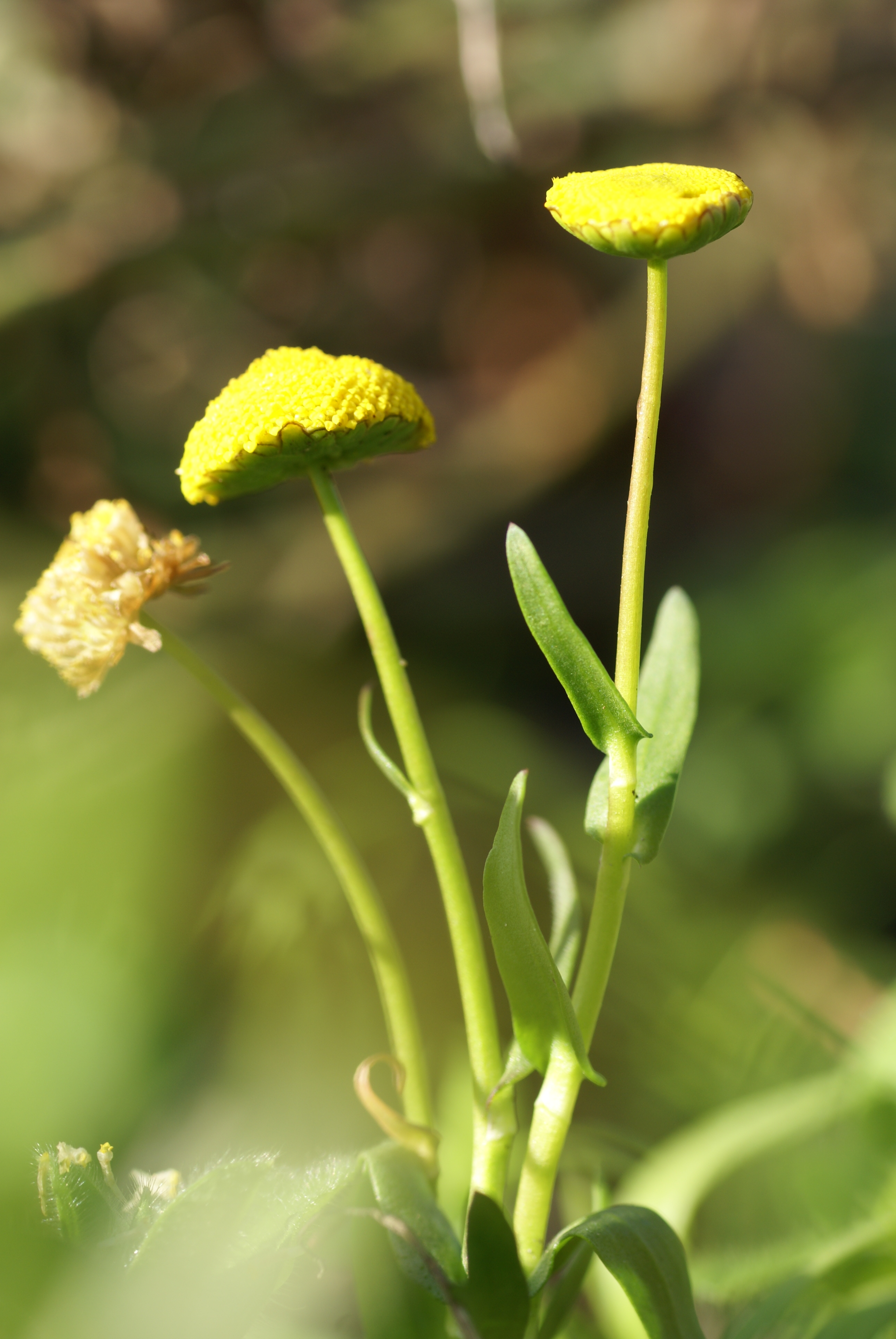 Plant species Cotula leptalea in Bergianska trädgården in Stockholm